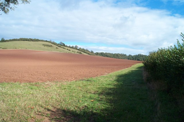 The Polden Hills The south side of the Poldens, looking east from the crossroads at Righton's Grave.